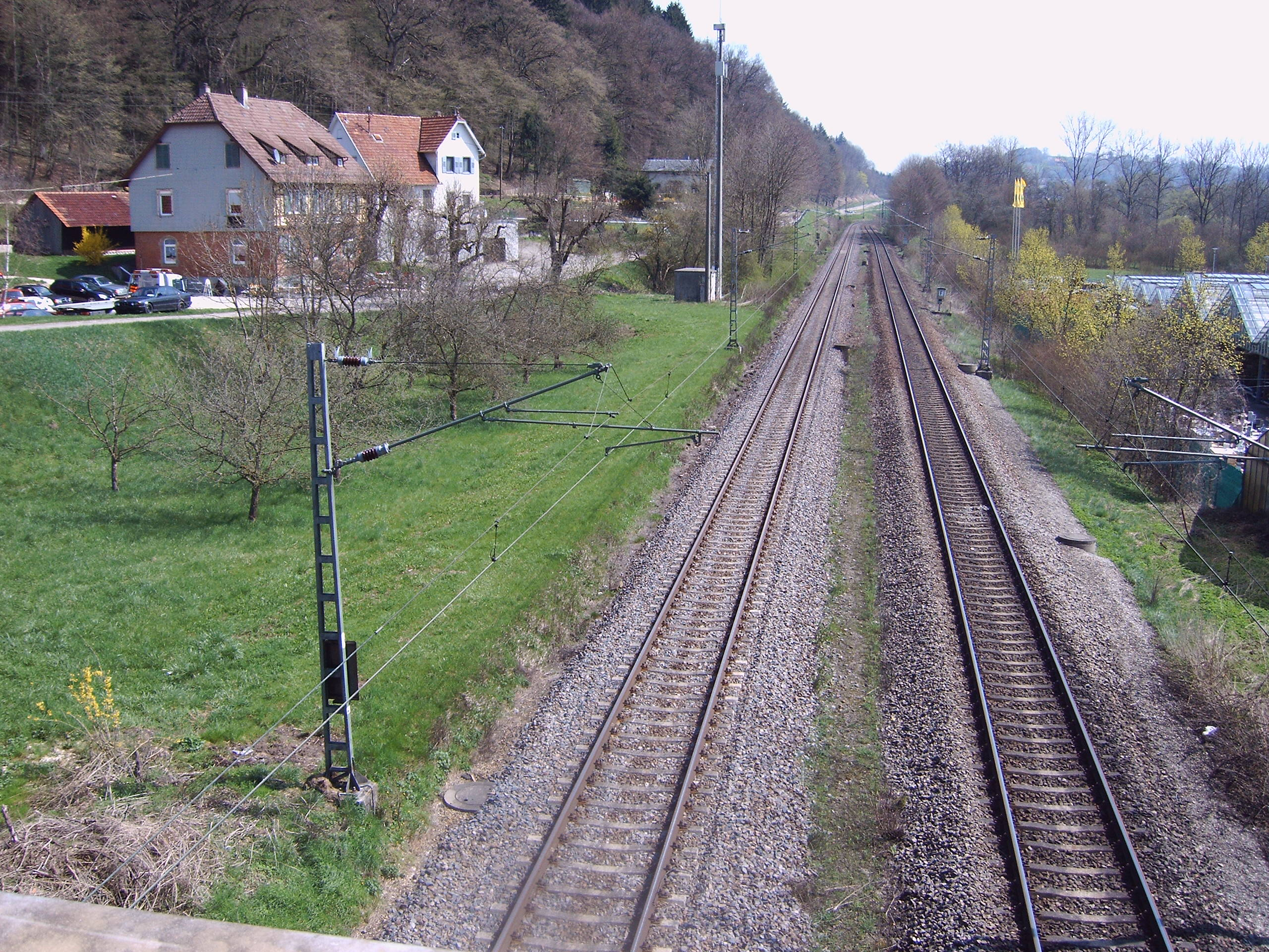 Former train stop Deinbach (Schwäbisch Gmünd, Germany)